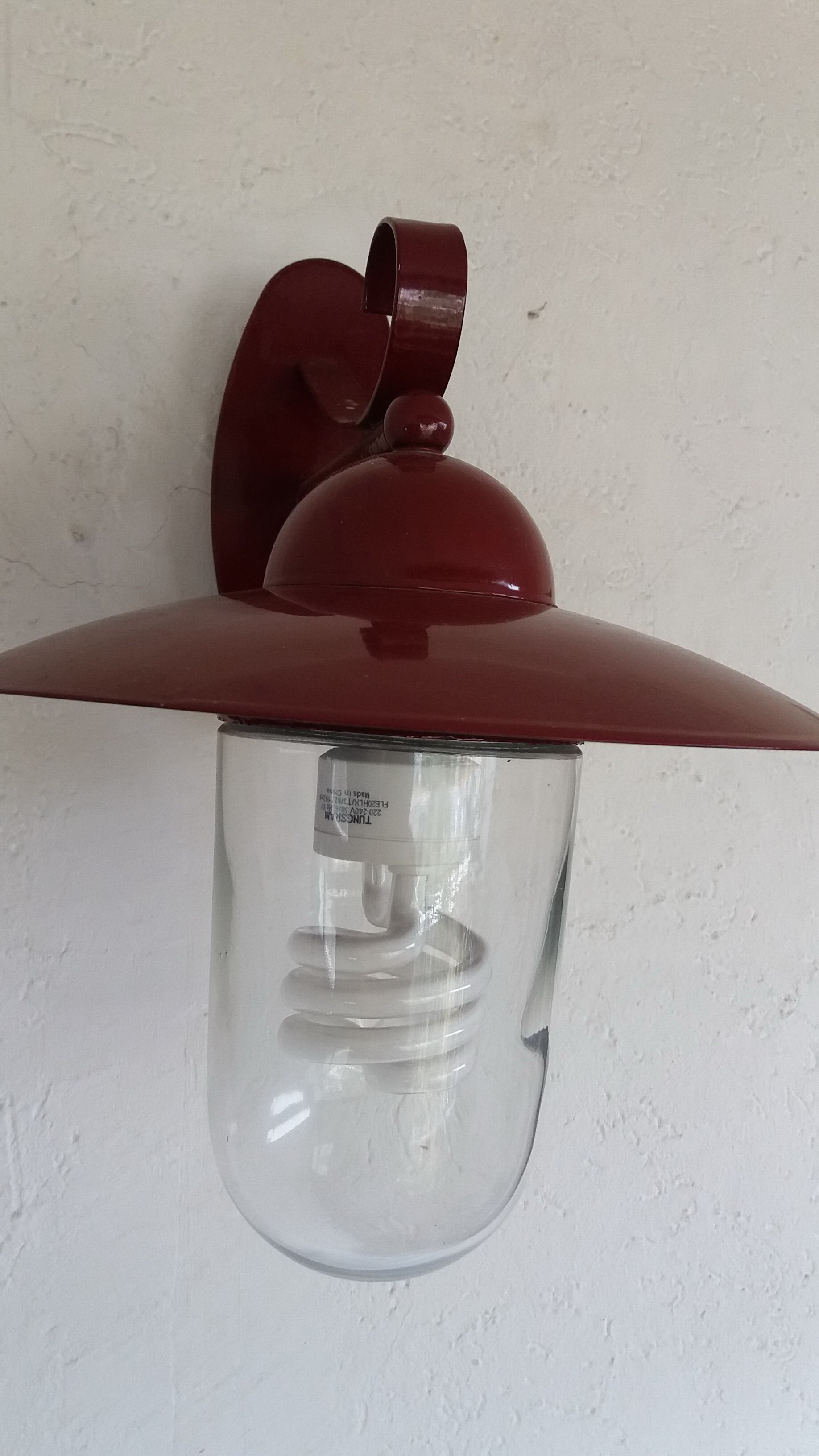 Wall lamp for open spaces